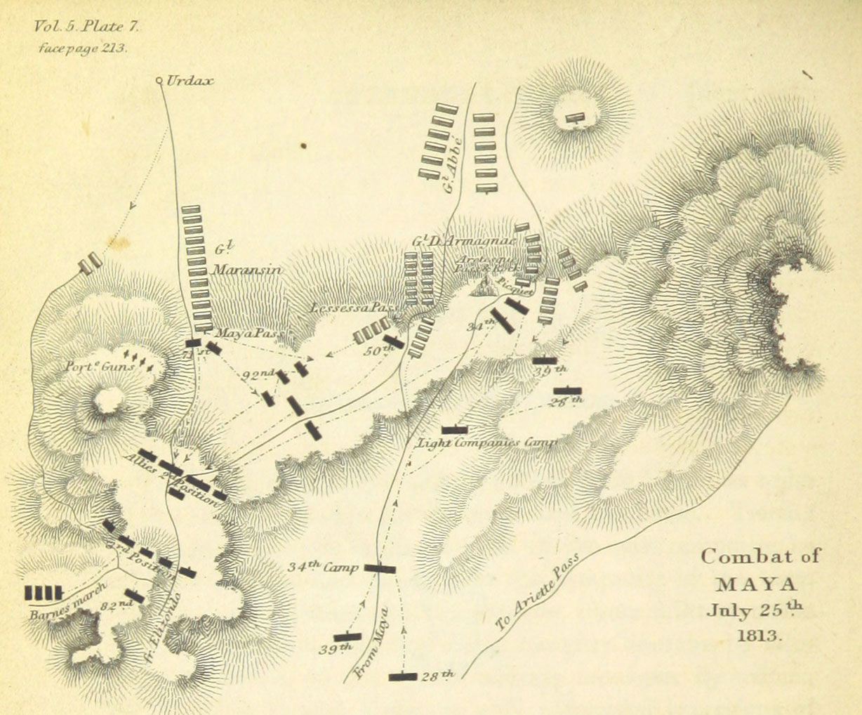 A map of the 1813 Battle of Maya.